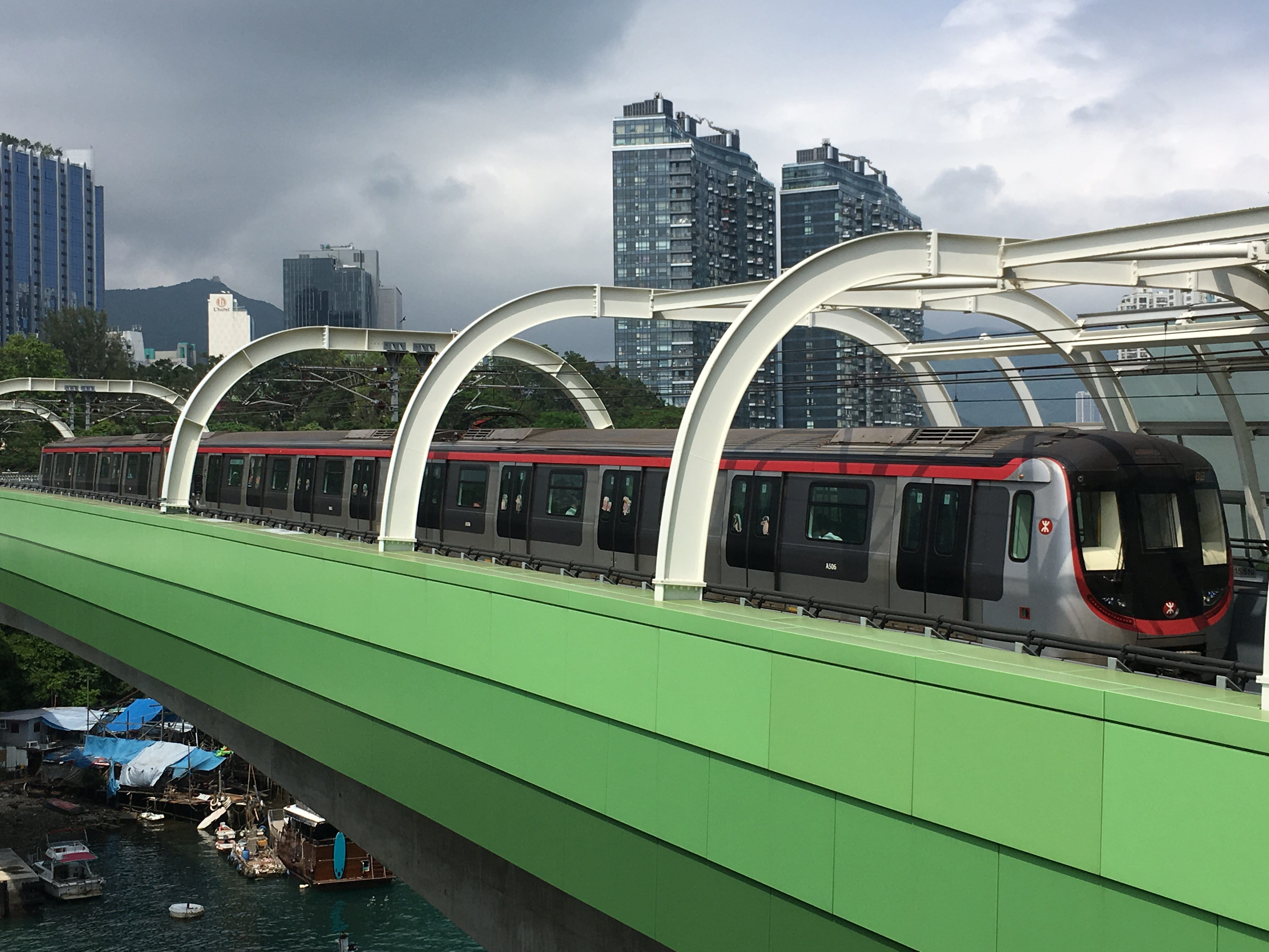 This train is taken in Ap Lei Chau Bridge.